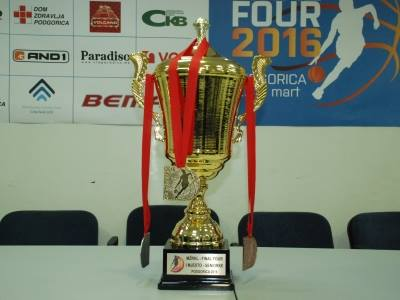 Trophy of MŽRKL at Final Four in season 2015-16.